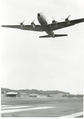 The last flight out of Bolling Air Force Base on July 1, 1962. Photo is open for copying and distribution. Photo was obtained from the U.S. Air Force 11th Wing Historian's Web site.